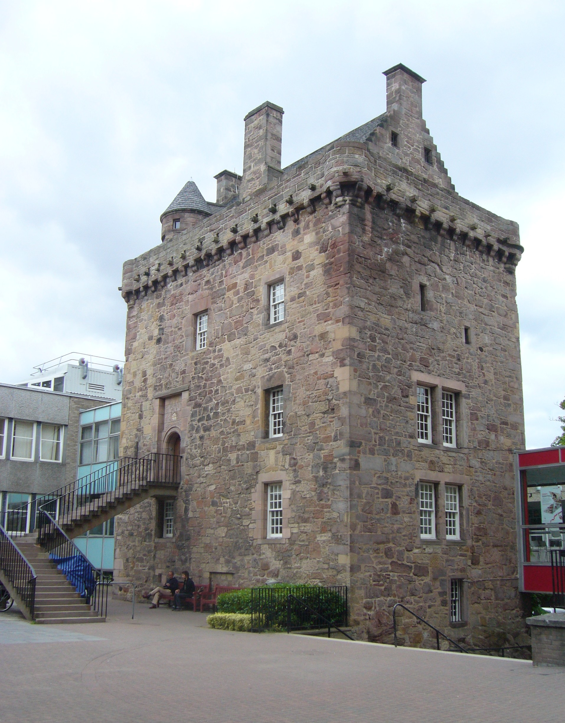 Merchiston Tower, incorporated into the original campus of Napier University.